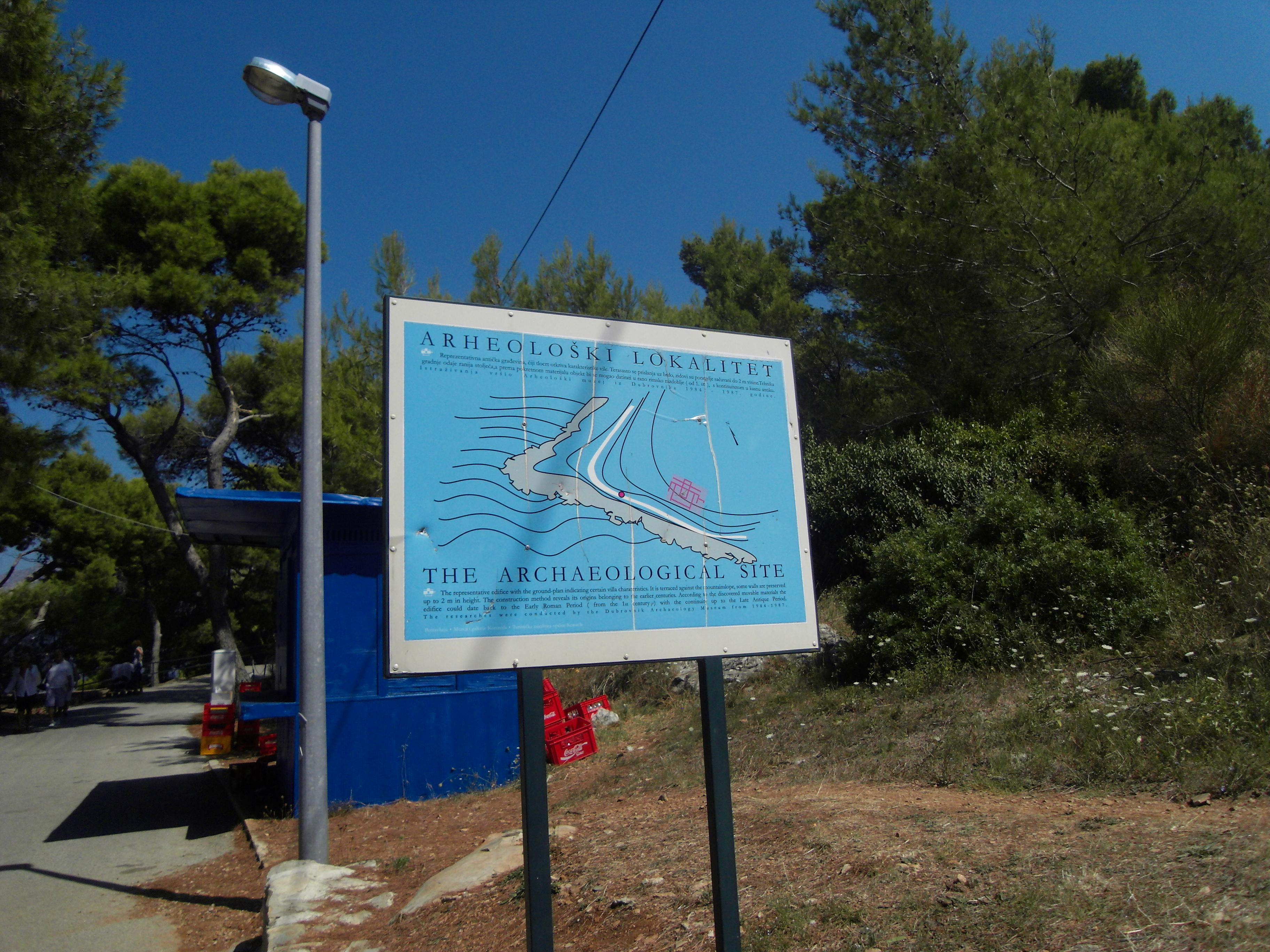 Cavtat Archeological site